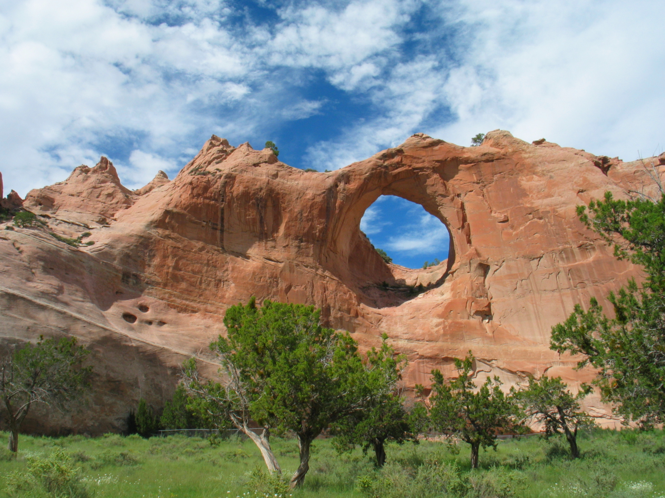 The namesake of Window Rock, Arizona Diné bizaad: Tségháhoodzání, Hoozdoh Hahoodzo